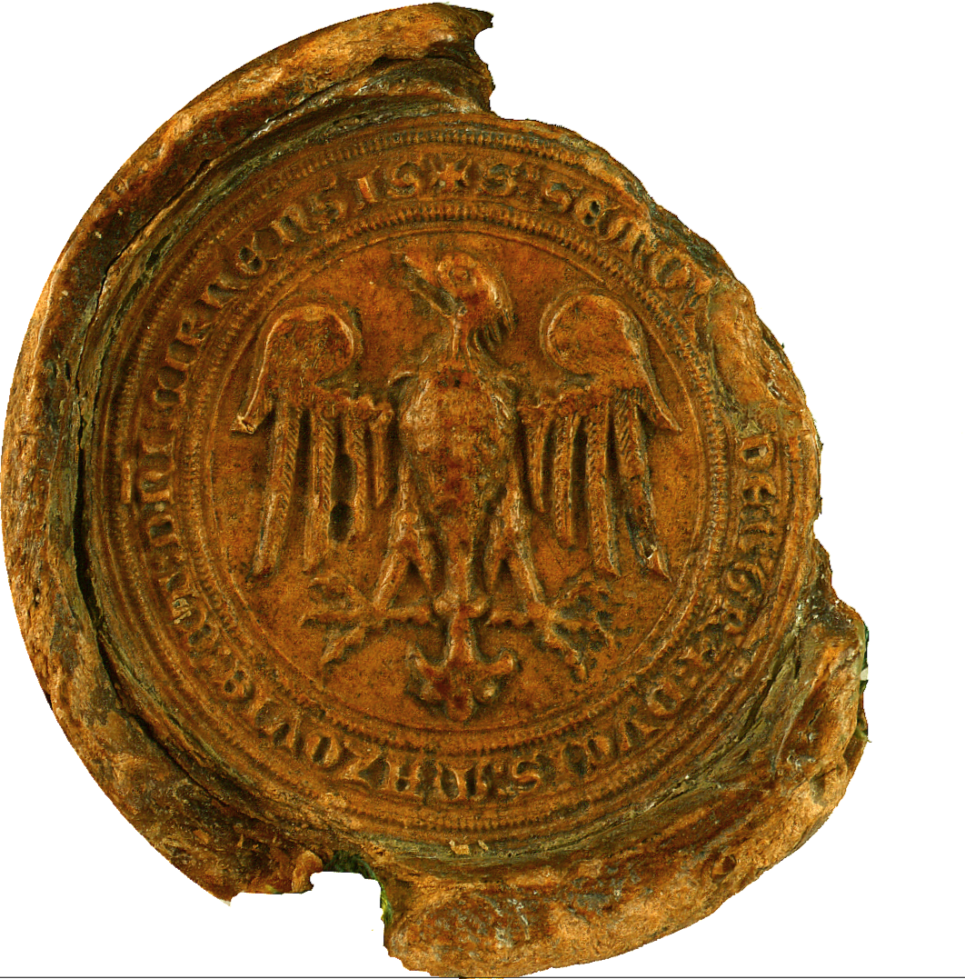 Seal of Siemowit III, Duke of Masovia 1371